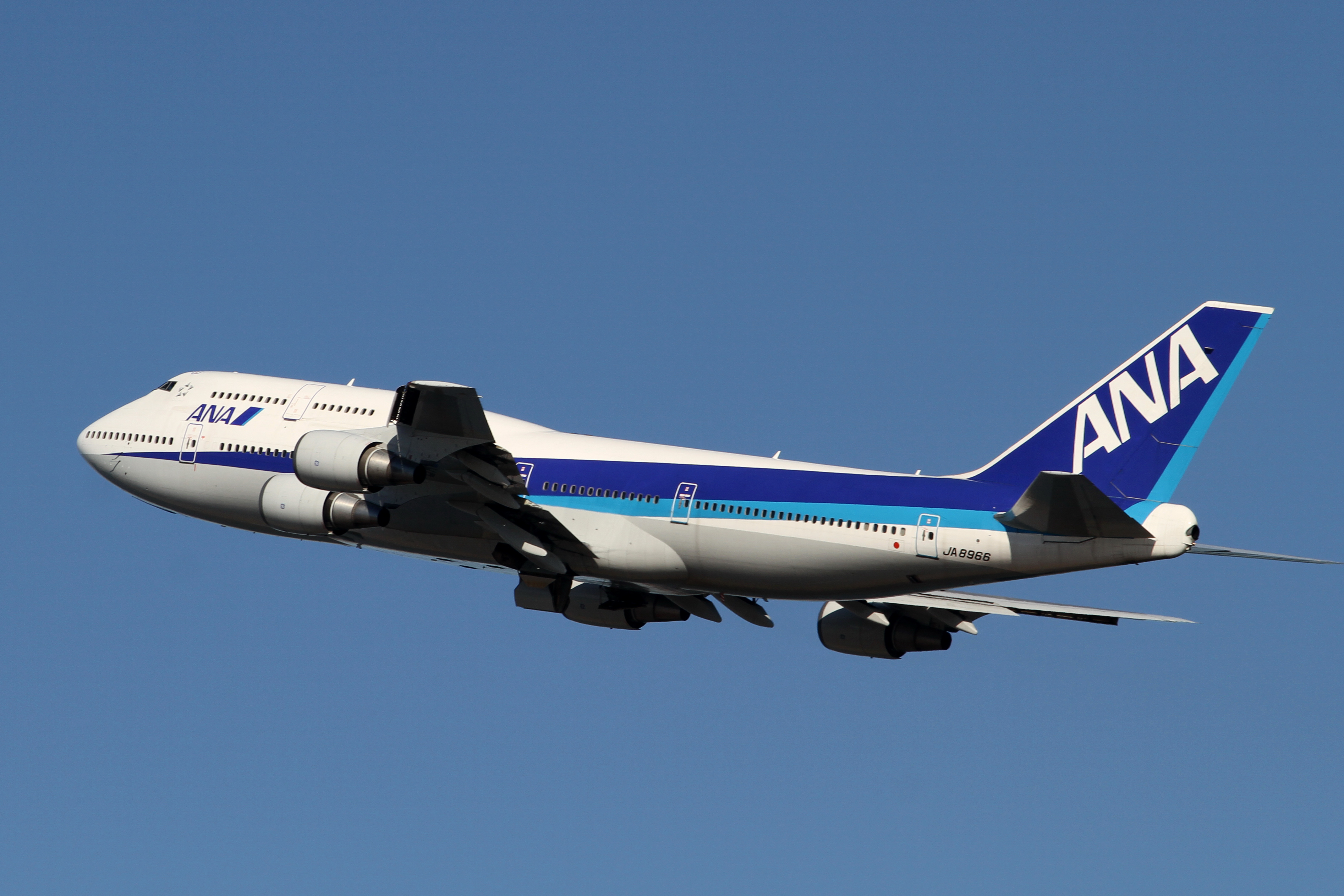 Tokyo International Airport, Boeing 747-481D, c/n:27442, All Nippon Airways